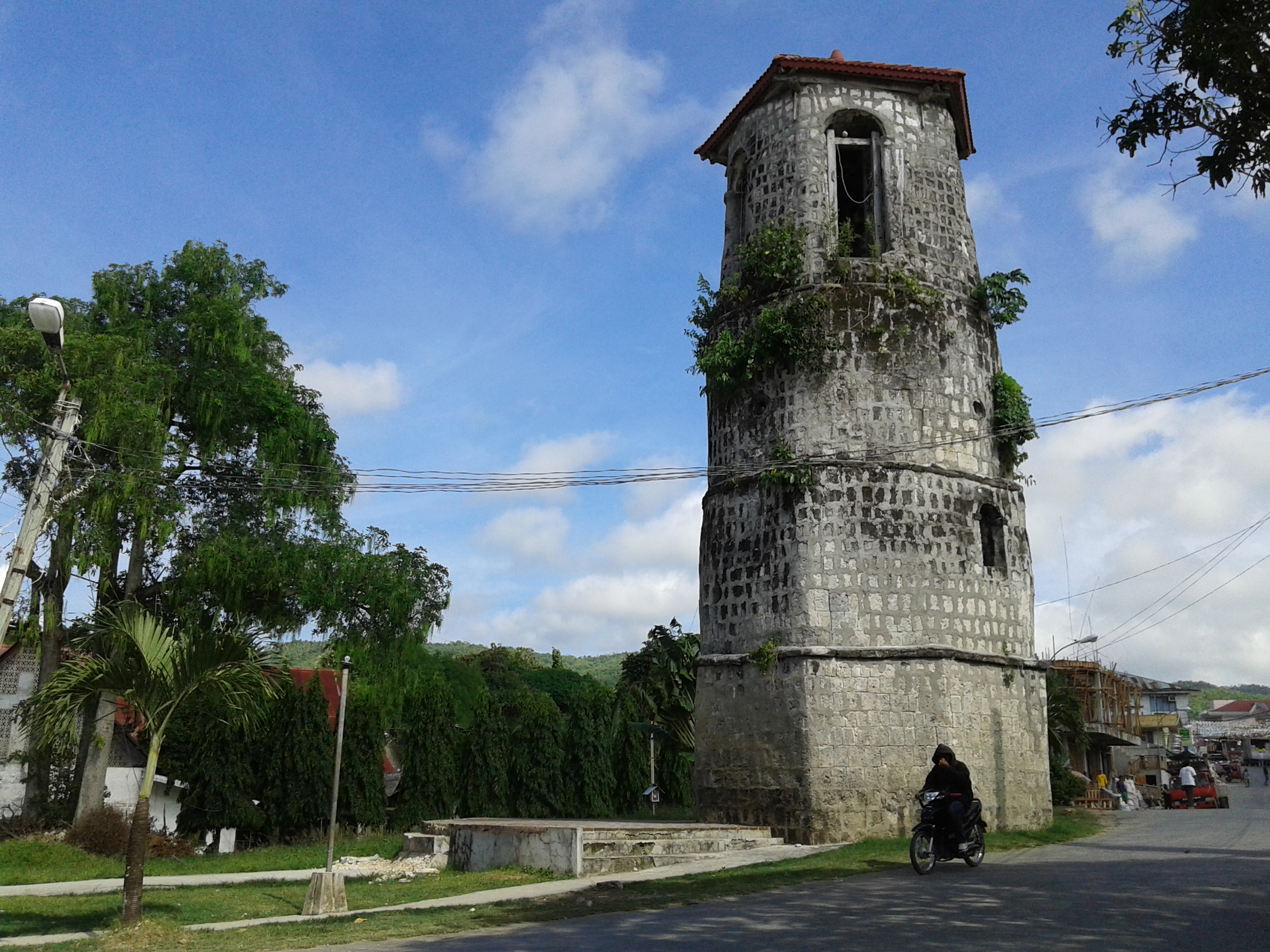 The belfry of the St. Francis of Assisi Parish Church in Siquijor, Siquijor